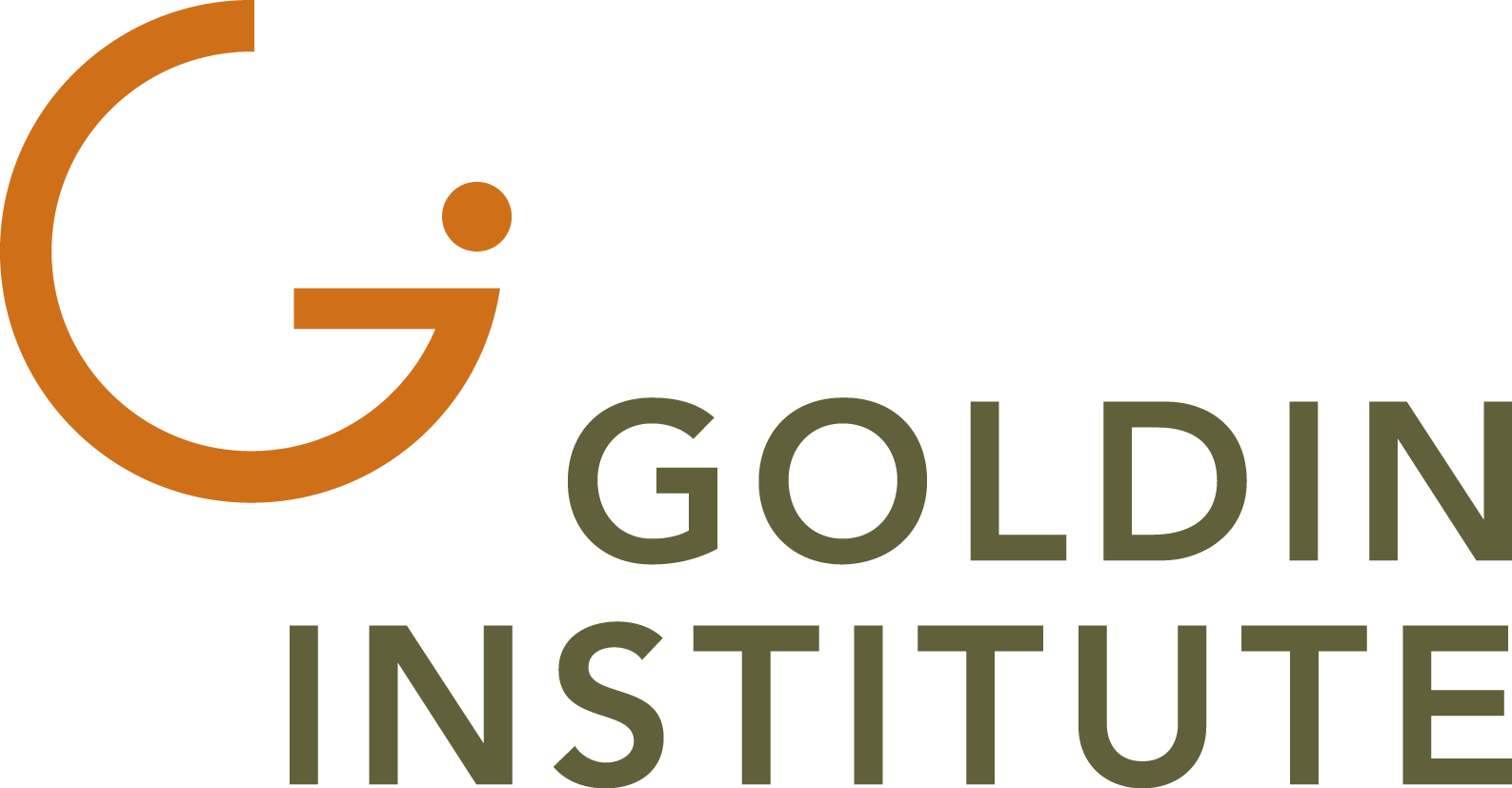 The Goldin Institute builds grassroots partnerships for global change that are rooted in the power of communities working together to build their own solutions and determine their own futures.